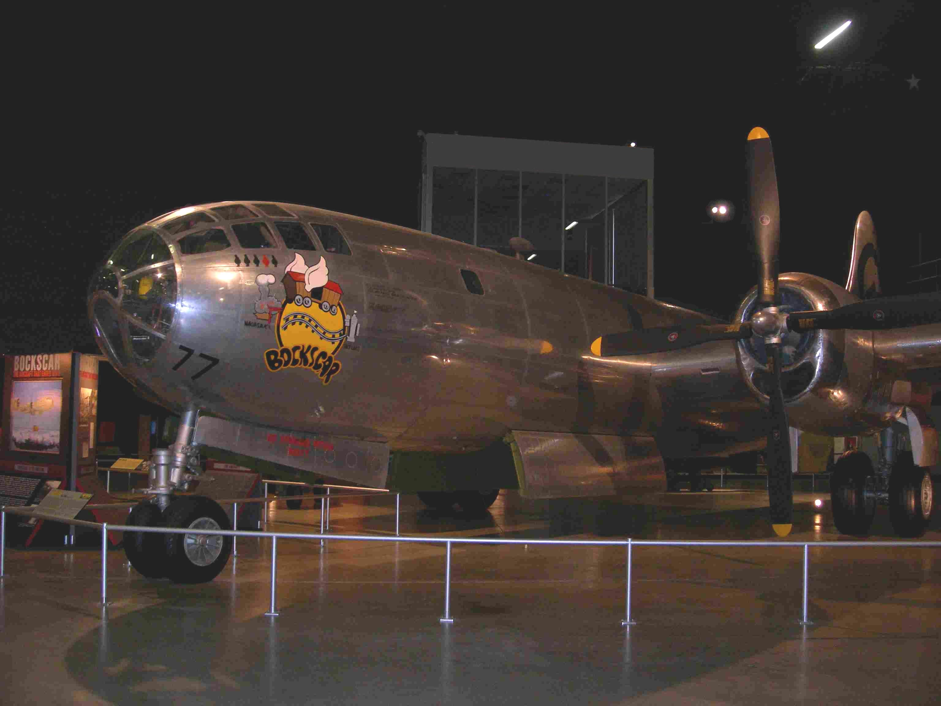 B-29 Bockscar on display at the National Museum of the United States Air Force